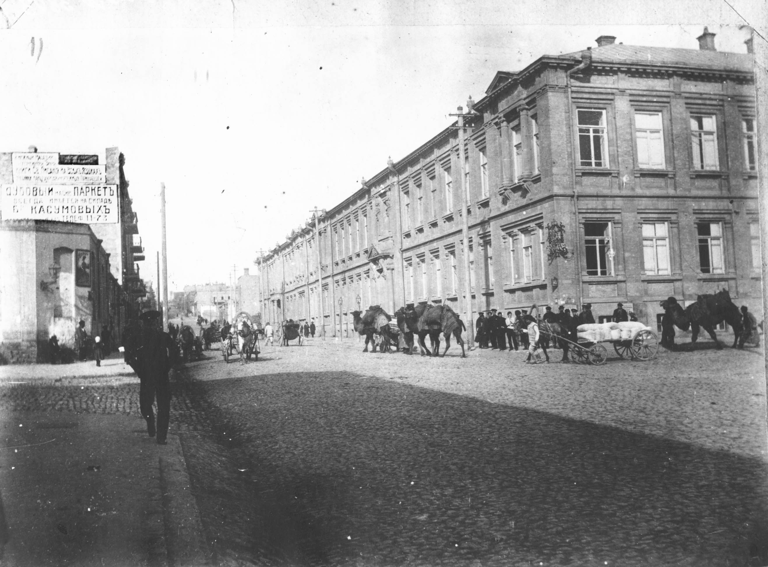 Building of Azerbaijan State Oil Academy in Baku.